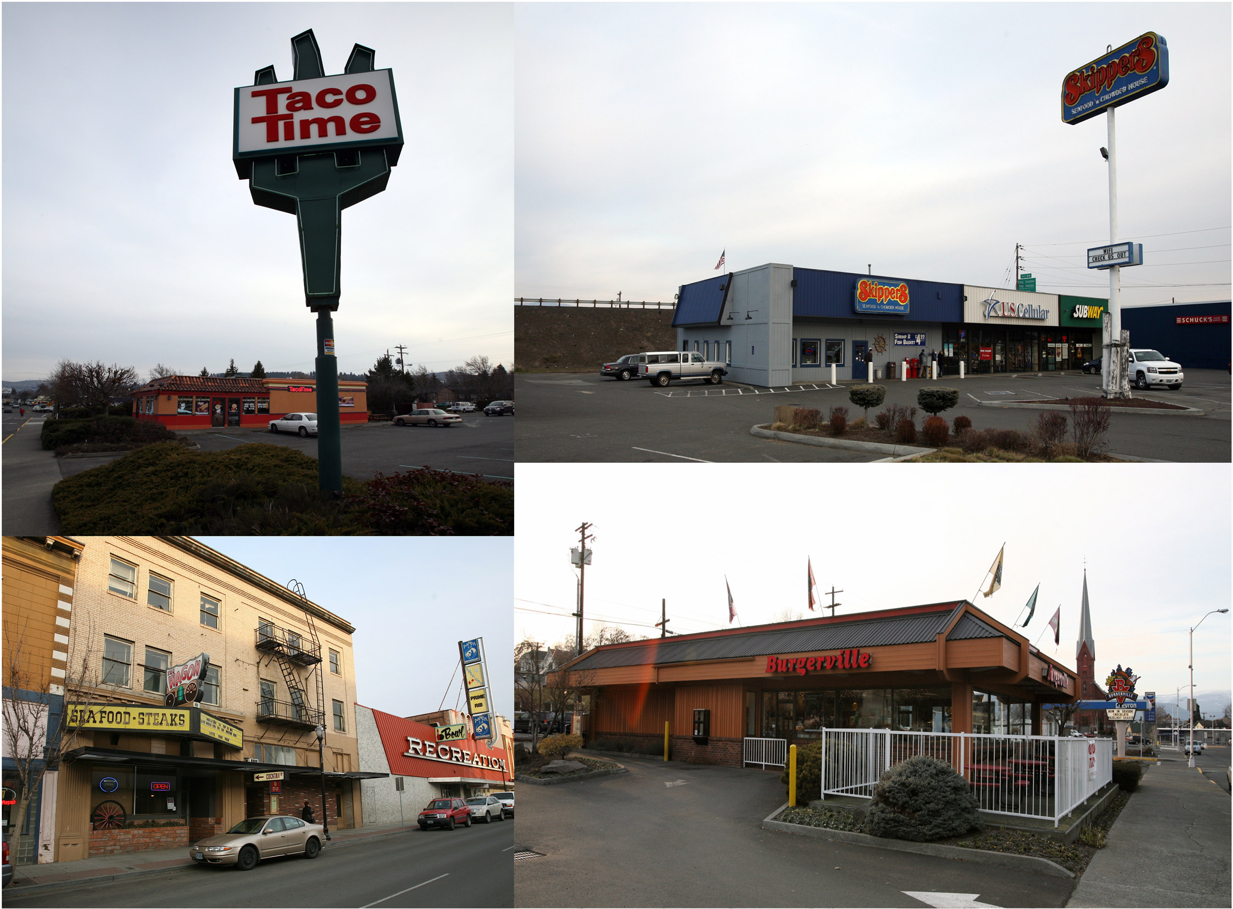 4 restaurants in The Dalles, Oregon that were targeted in the 1984 Rajneeshee bioterror attack.